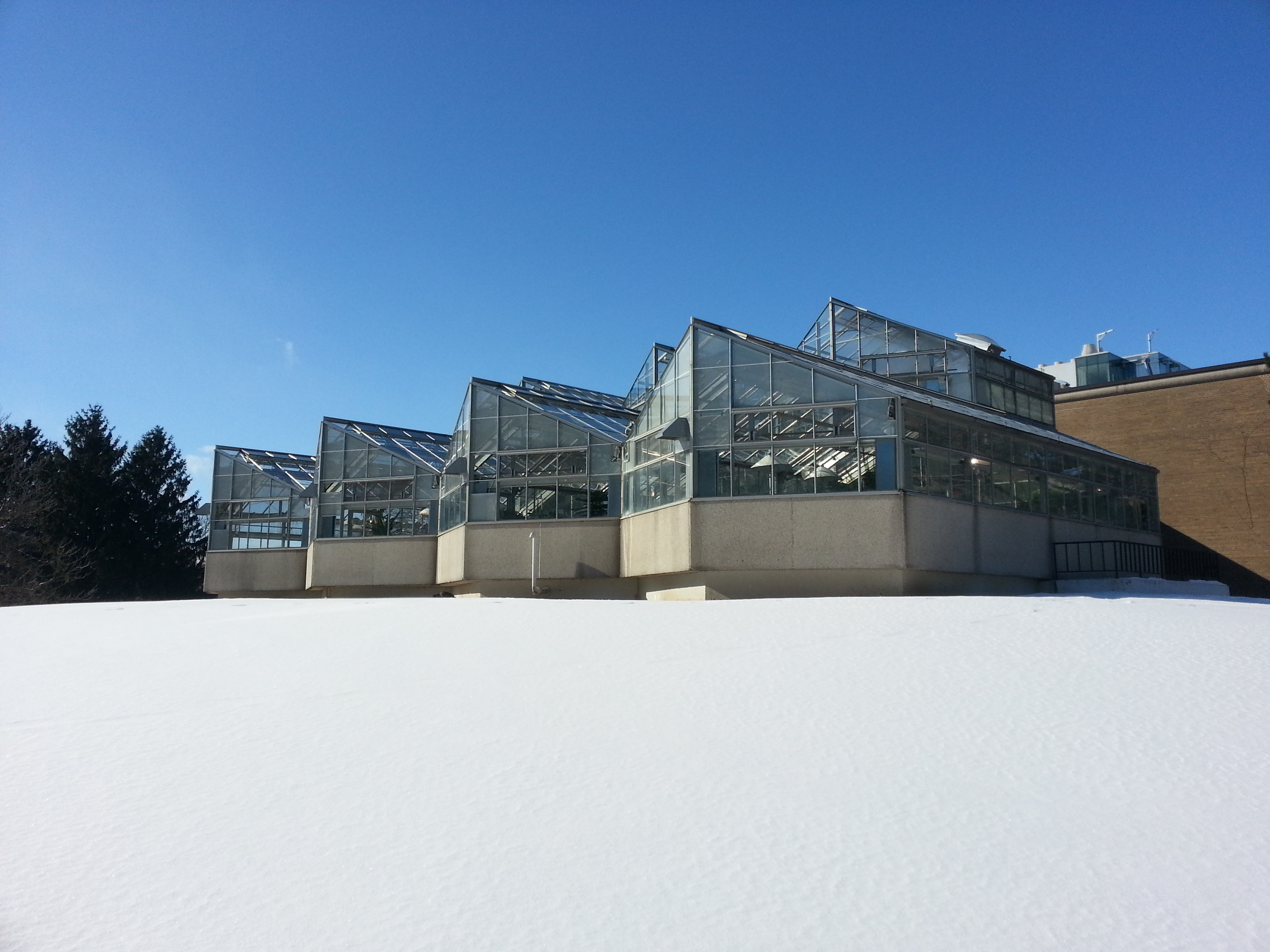 Insert description here